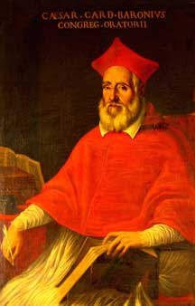 Caesar Baronius (1538-1607)